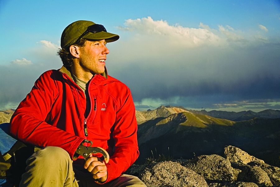 Digital photograph of Aron Ralston in a red jacket at sunset, in the mountains of Central Colorado, near Independence Pass (Aspen), CO